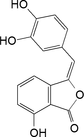 Chemical structure of thunberginol F